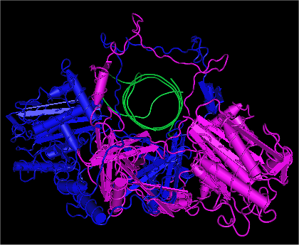 I made this image using the crystal structure PDB:1JEY which is in the public domain: [1]